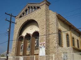 Templo San Vicente